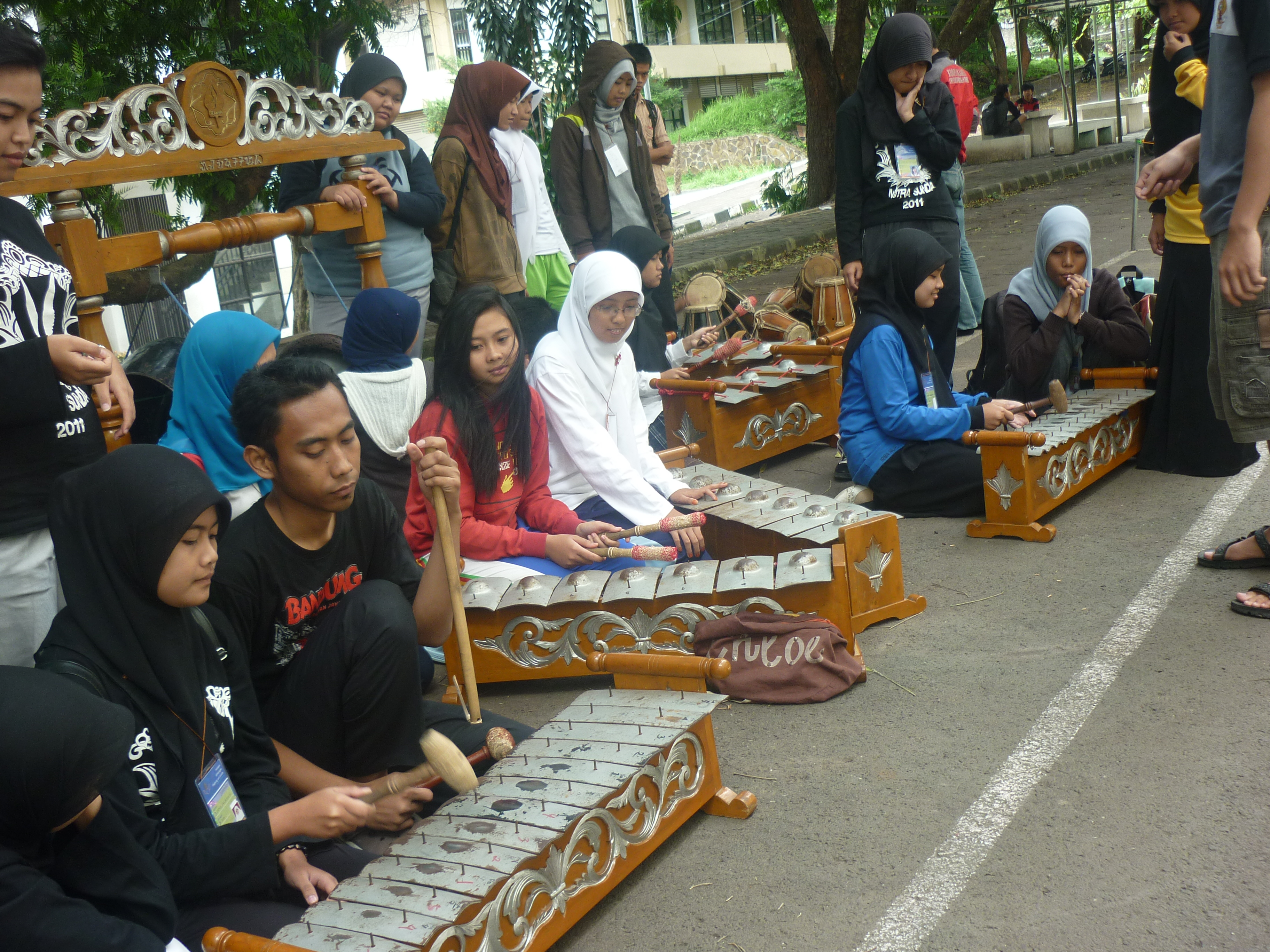 Students of Sundanese Departement, Indonesian University of Education, Bandung were learning Gamelan Degung